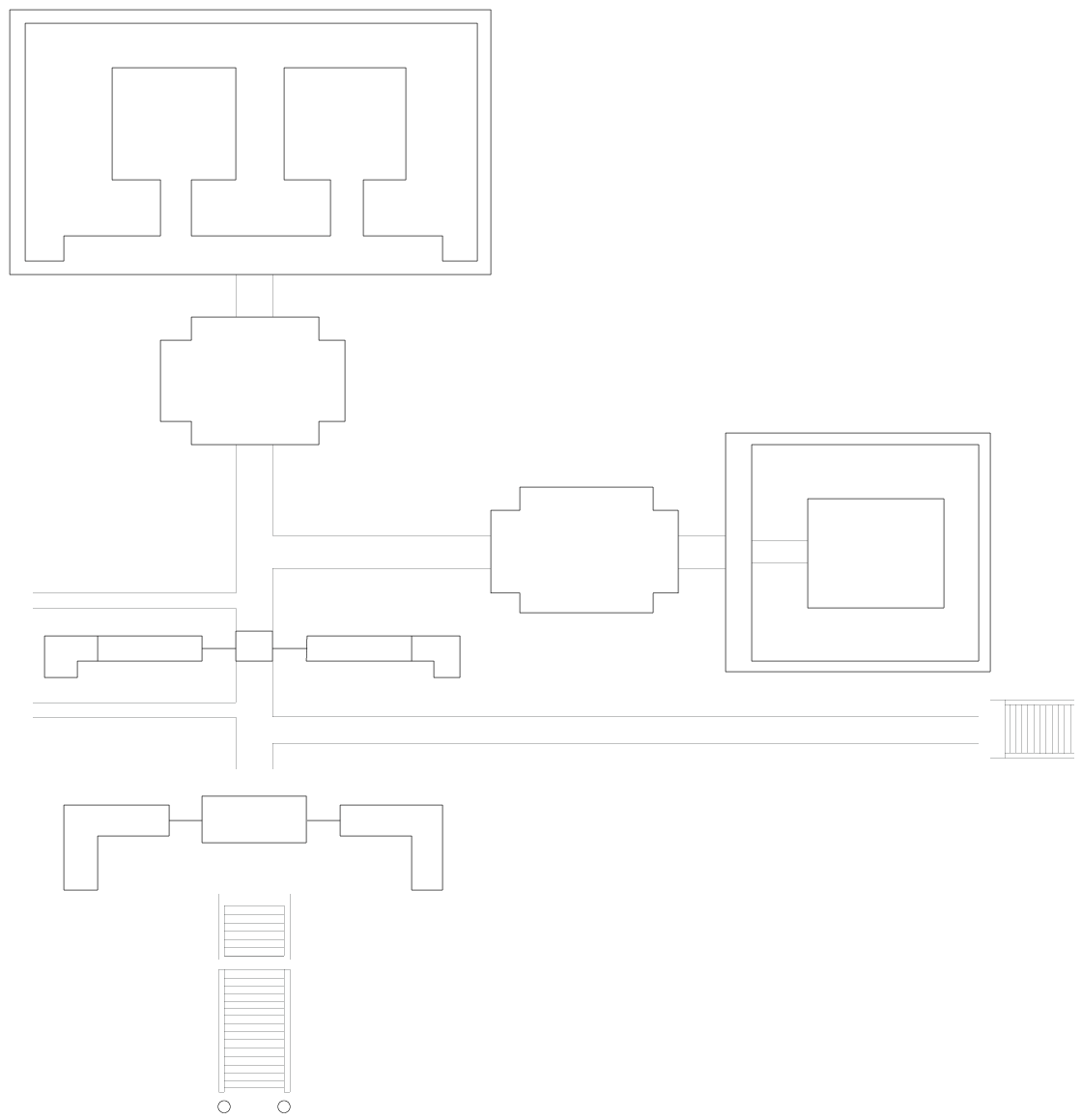 Plan of Shiogama Jinja, Shiogama, Miyagi Prefecture, Japan